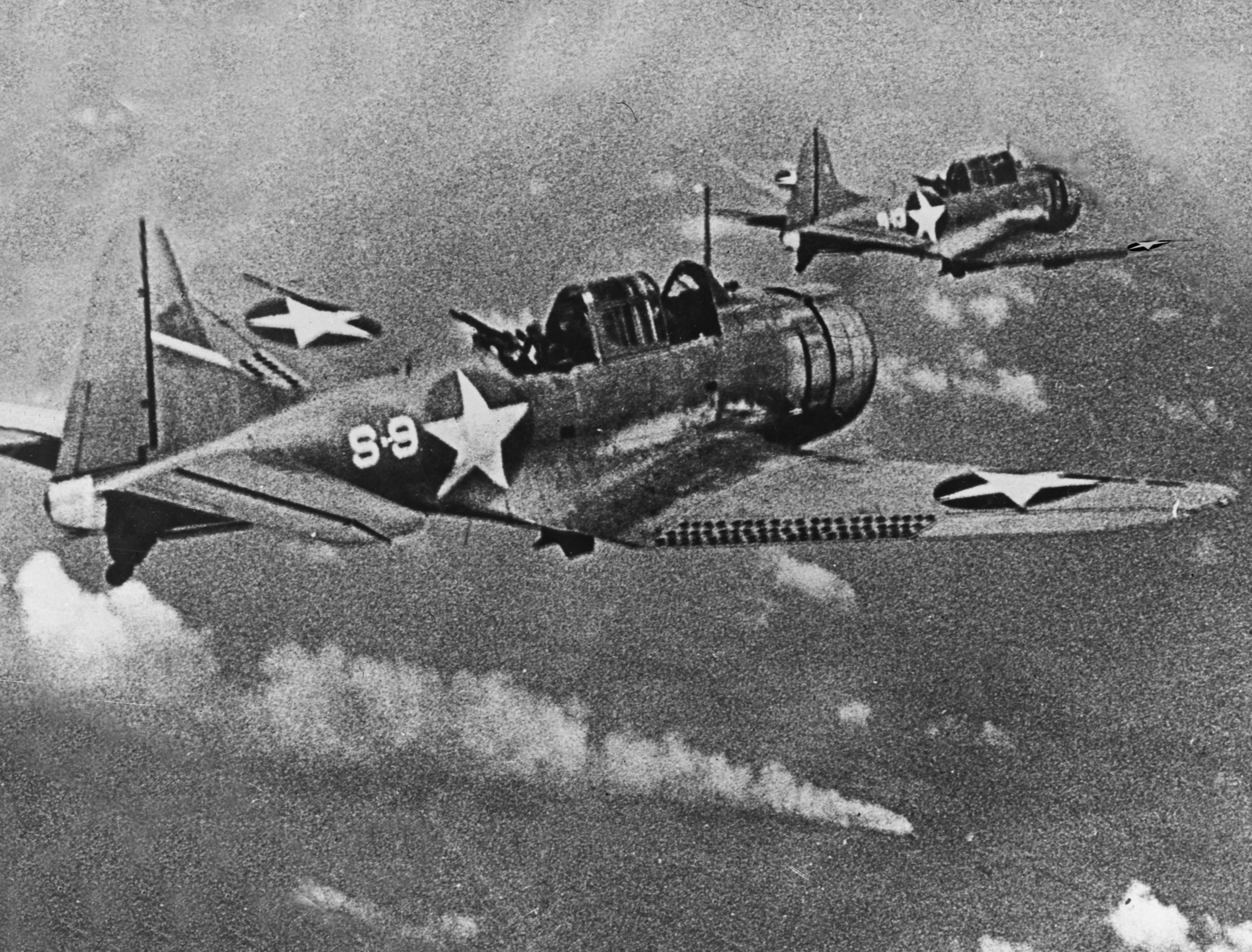 U.S. Navy Douglas SBD-3 "Dauntless" dive bombers from scouting squadron VS-8 from the aircraft carrier USS Hornet (CV-8) approaching the burning Japanese heavy cruiser Mikuma to make the third set of attacks on her, during the Battle of Midway, 6 June 1942. Mikuma had been hit earlier by strikes from Hornet and USS Enterprise (CV-6), leaving her dead in the water and fatally damaged. Note bombs hung beneath the SBDs.